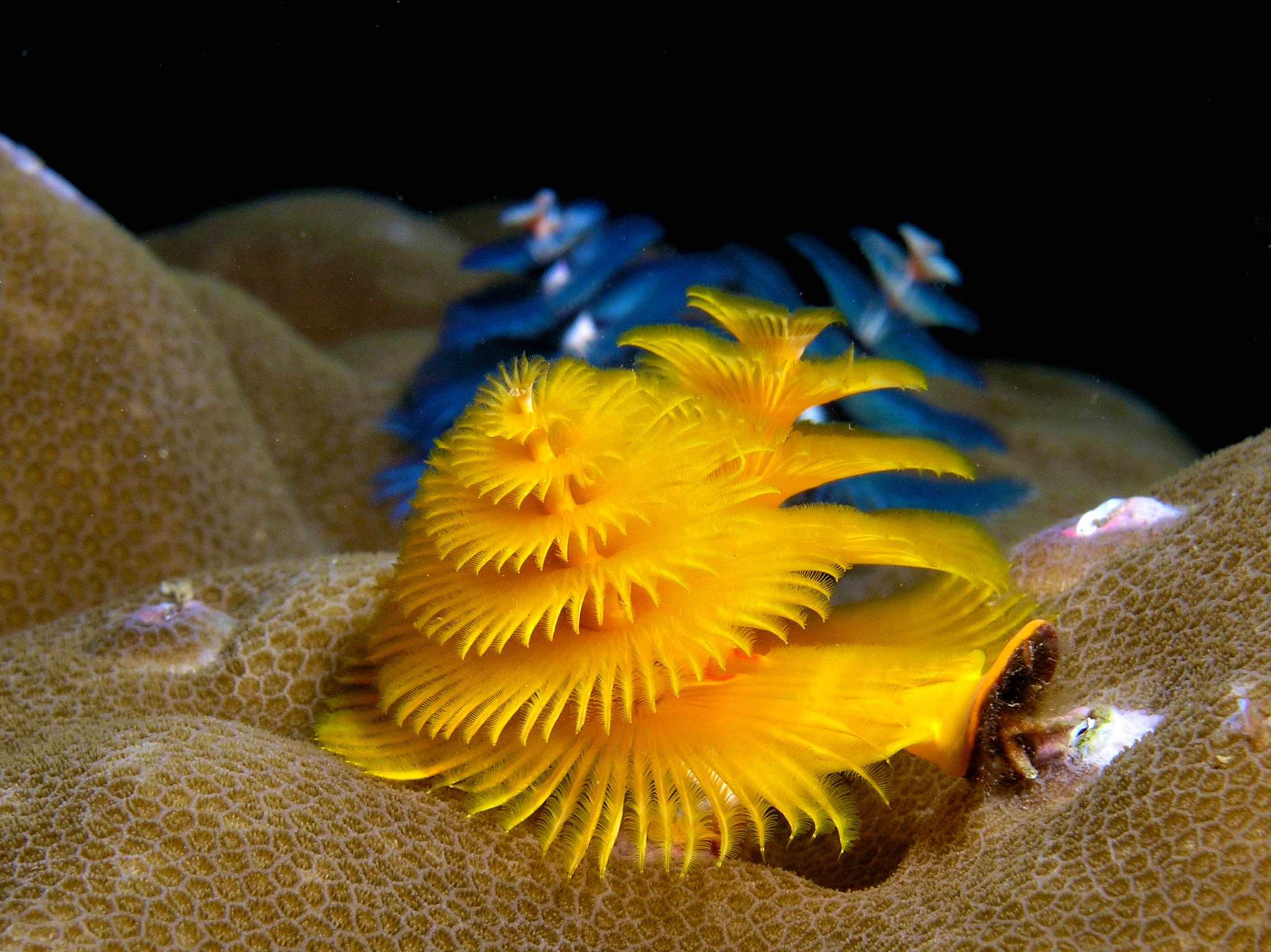 Yellow and blue Christmas tree worms (Spirobranchus giganteus) from East Timor